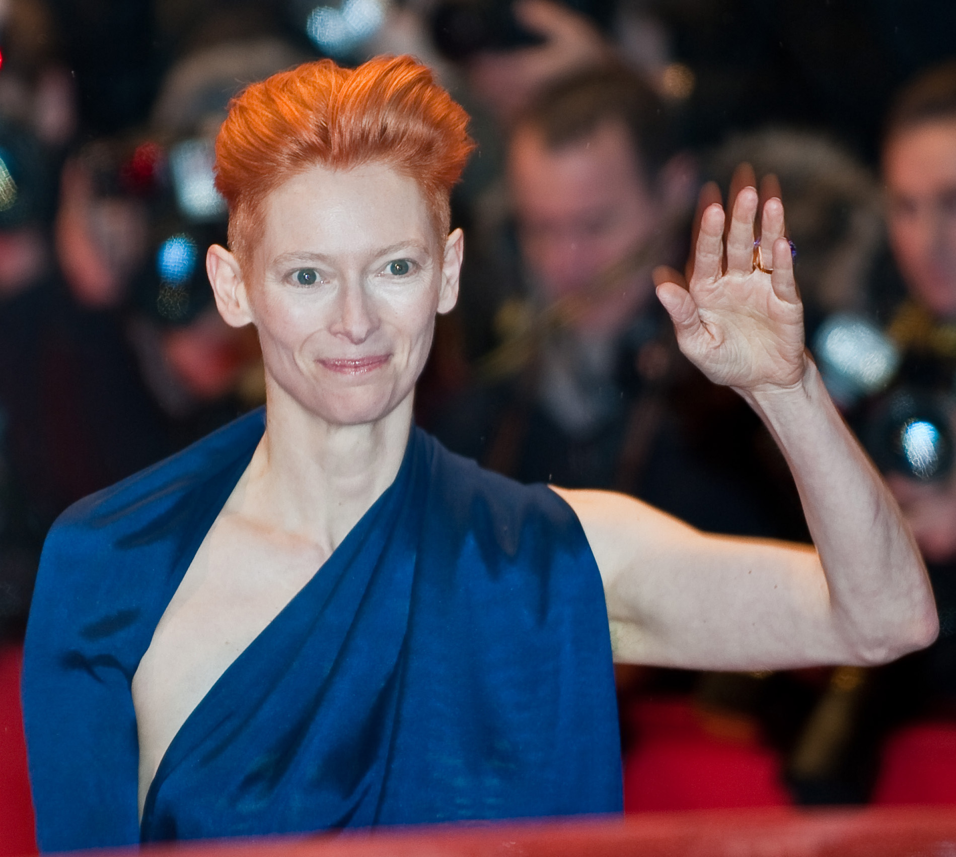 British actress and last year president of the jury Tilda Swinton arriving at the opening of the 60th Berlin International Film Festival